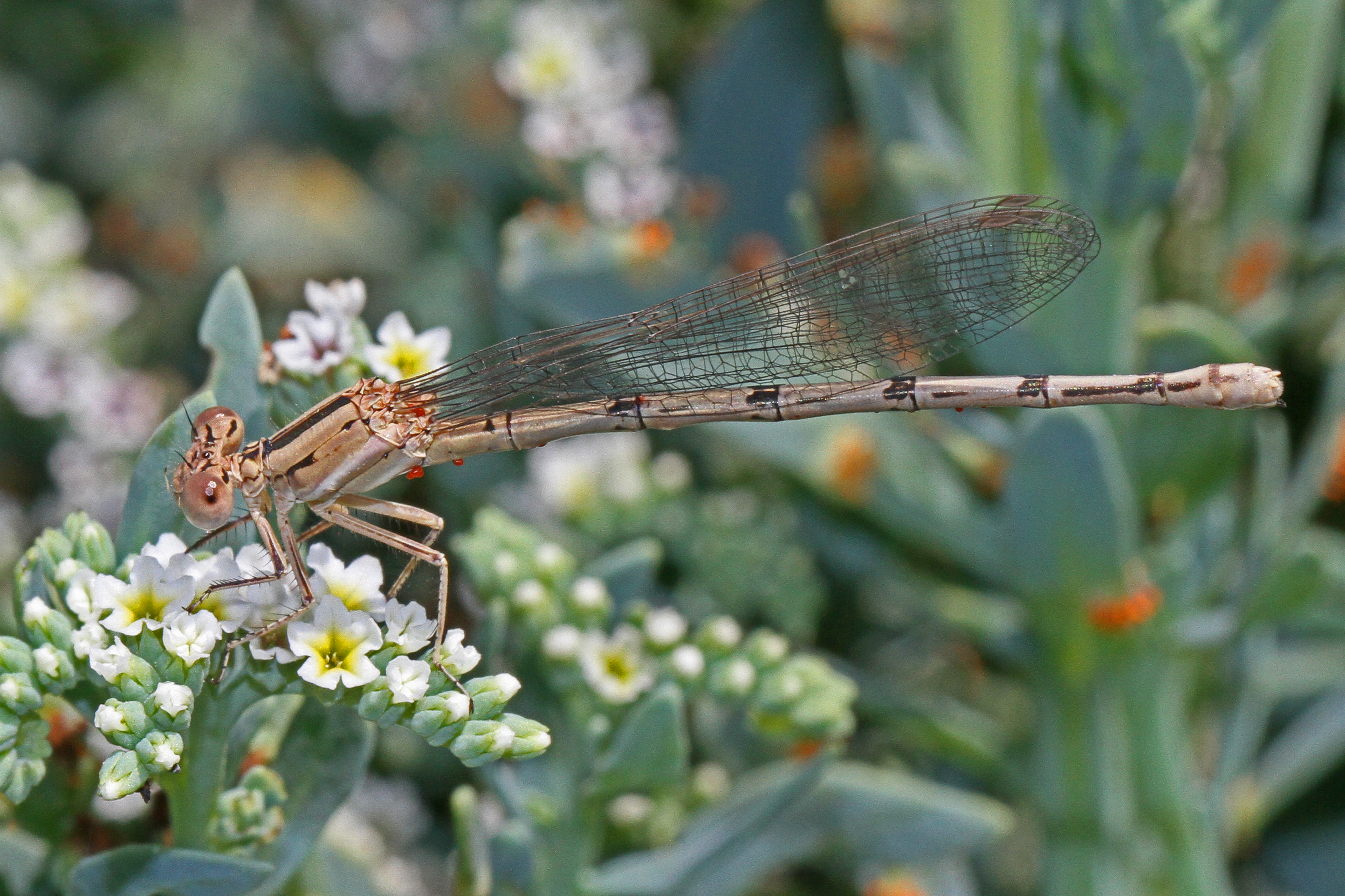 Paiute Dancer - Argia alberta, Bitter Lakes National Wildlife Refuge, Roswell, New Mexico